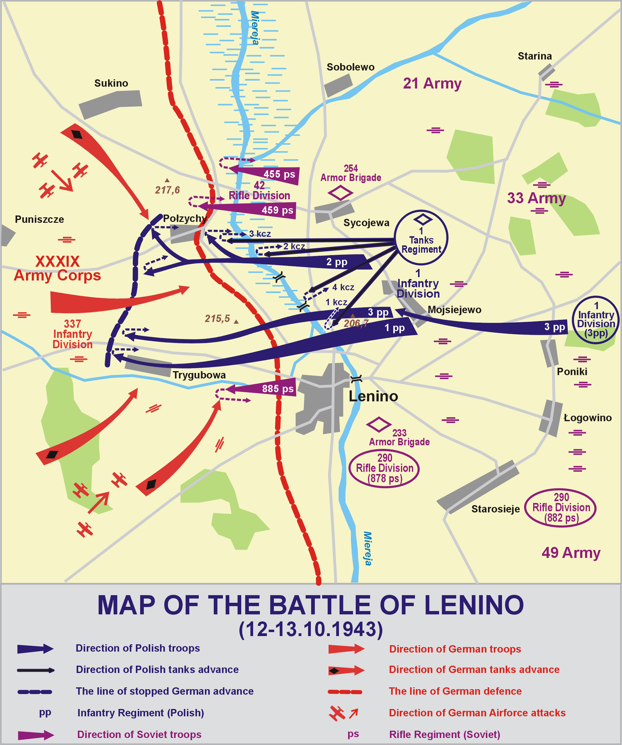 Map of the battle of Lenino (12-13.10.1943)